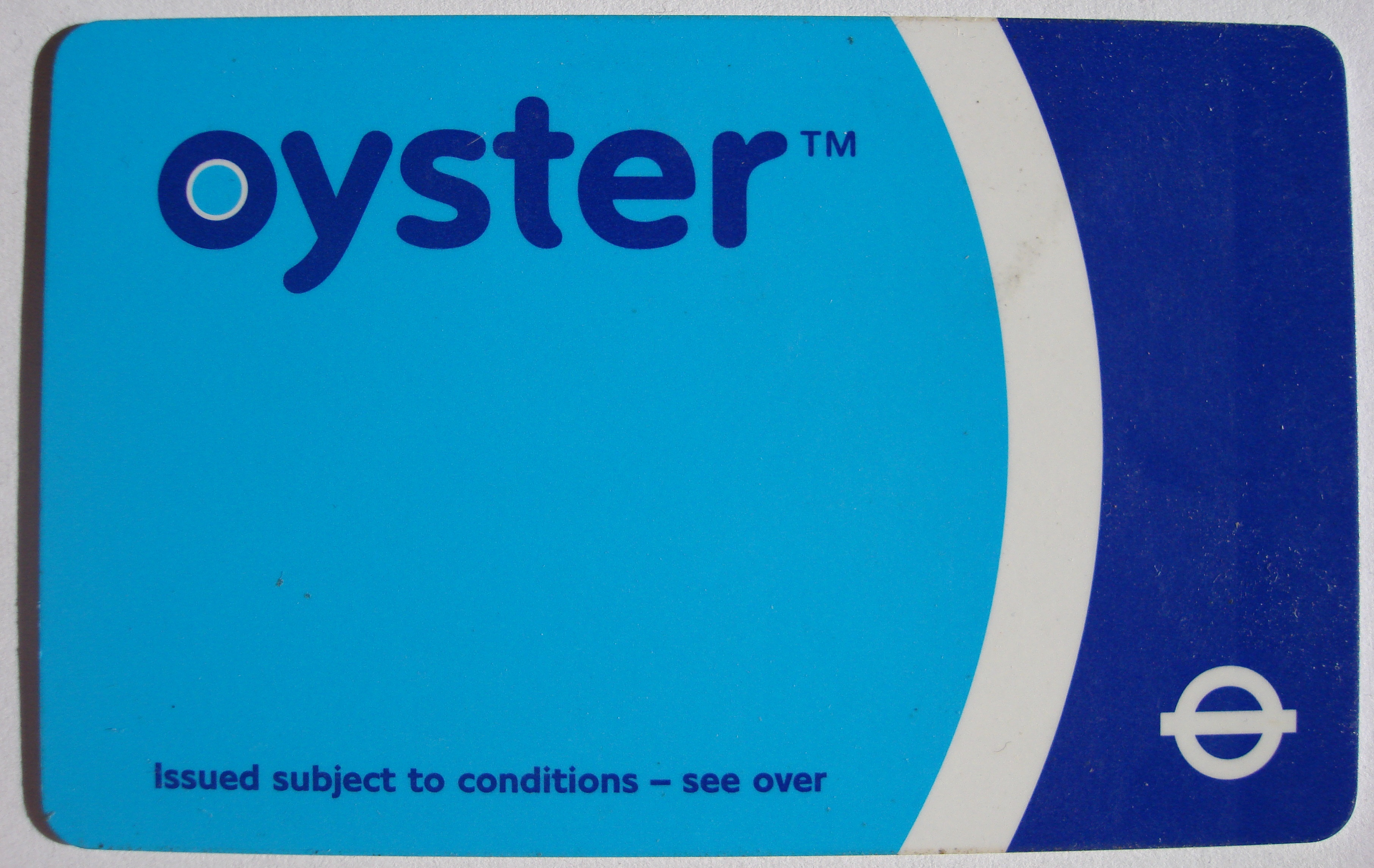 A Transport for London, Oyster smart card